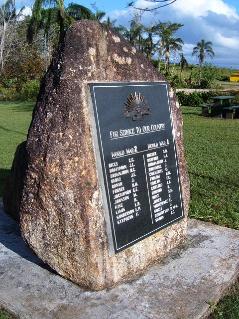 War memorial at Eacham, Queensland, Australia (near Lake Eacham, Atherton Tableland) I took this picture in June 2006. Peter Ellis 03:33, 19 August 2006 (UTC)